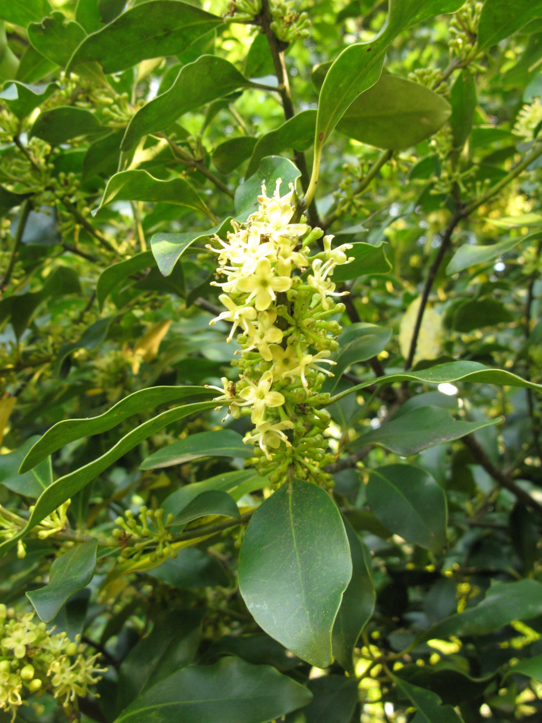 Ilex integra, Rikugien Garden, Tokyo, Japan